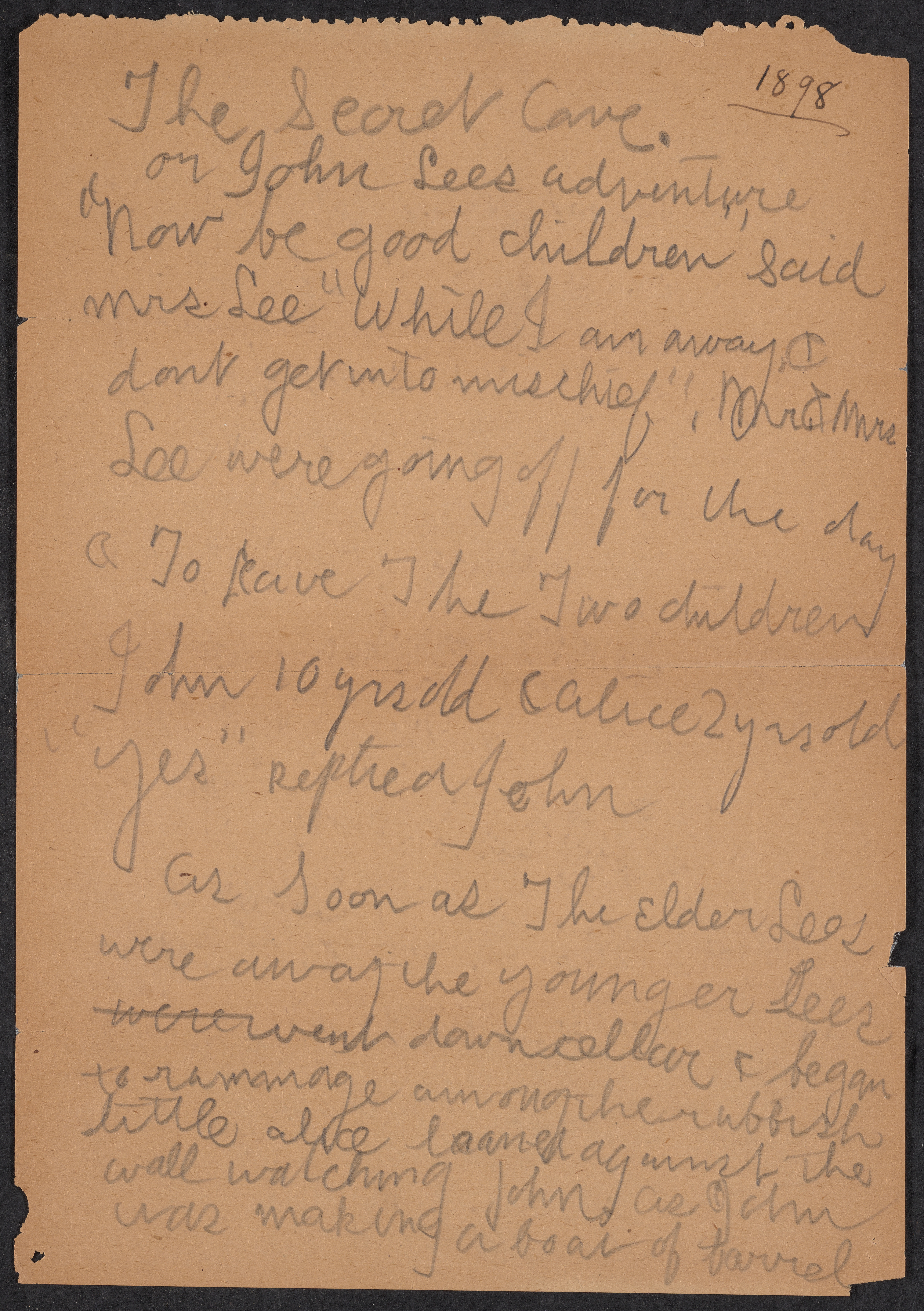 First page of the manuscript The Secret Cave, or John Lees Adventure.